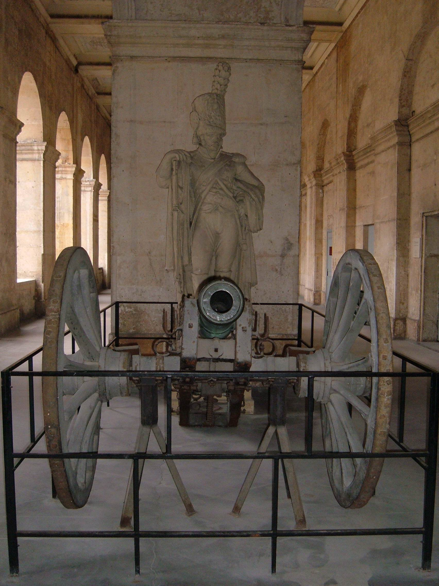 Cannon and a statue of an Imperial Guard soldier behind the statue of Napoleon I overlooking a courtyard of Les Invalides, Paris, France.